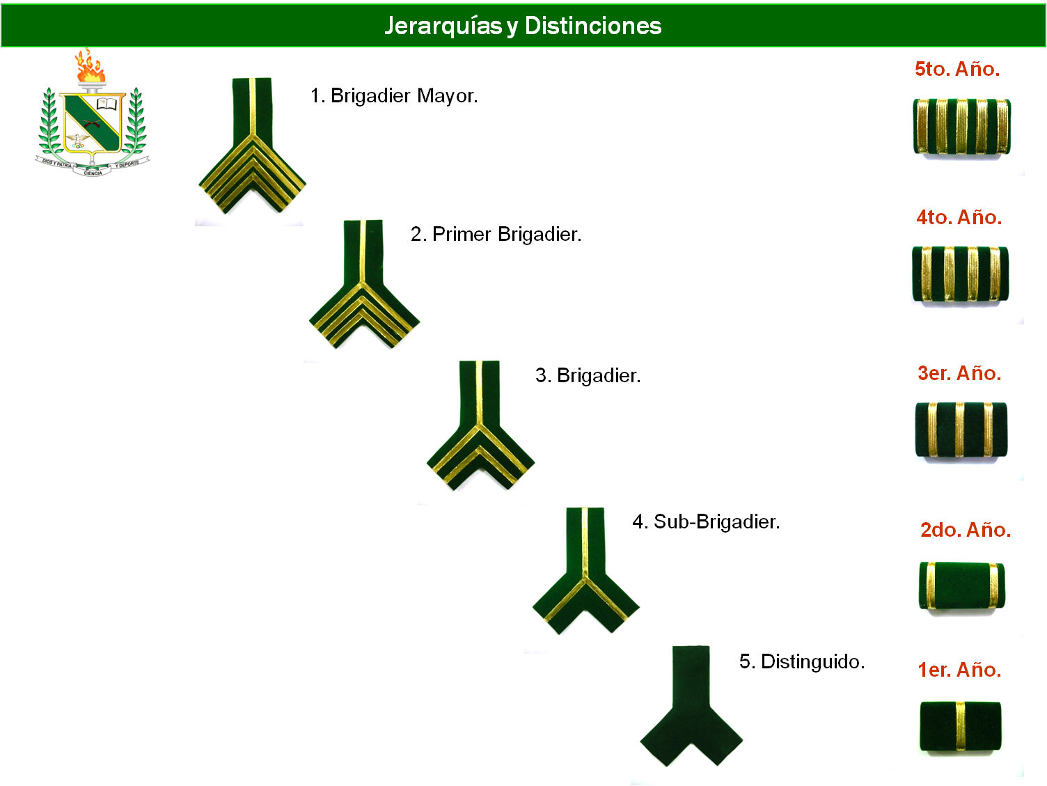 Military highschool cadets in Venezuela are officially called fifth year, fourth year, third year, second year, and first year cadets. During the first four years, outstanding cadets are awarded a distinguished cadet badge; fifth year cadets were brigadier badges depending on academic senority or merit.